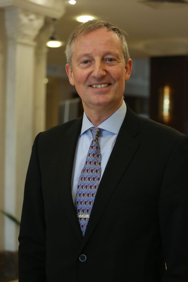 Christian-Peter Hanelt, expert on the MENA region in Baghdad